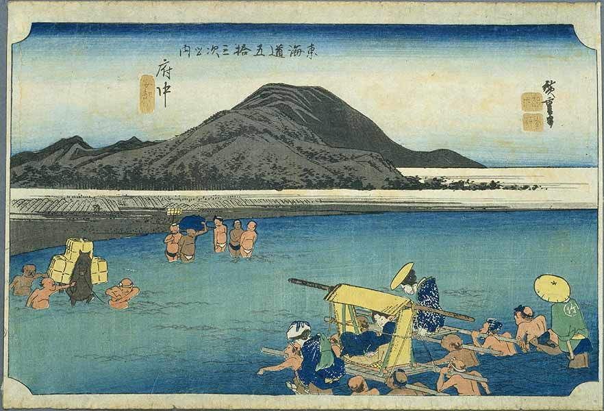 Fuchu on the Tokaido, ukiyo-e prints by Hiroshige